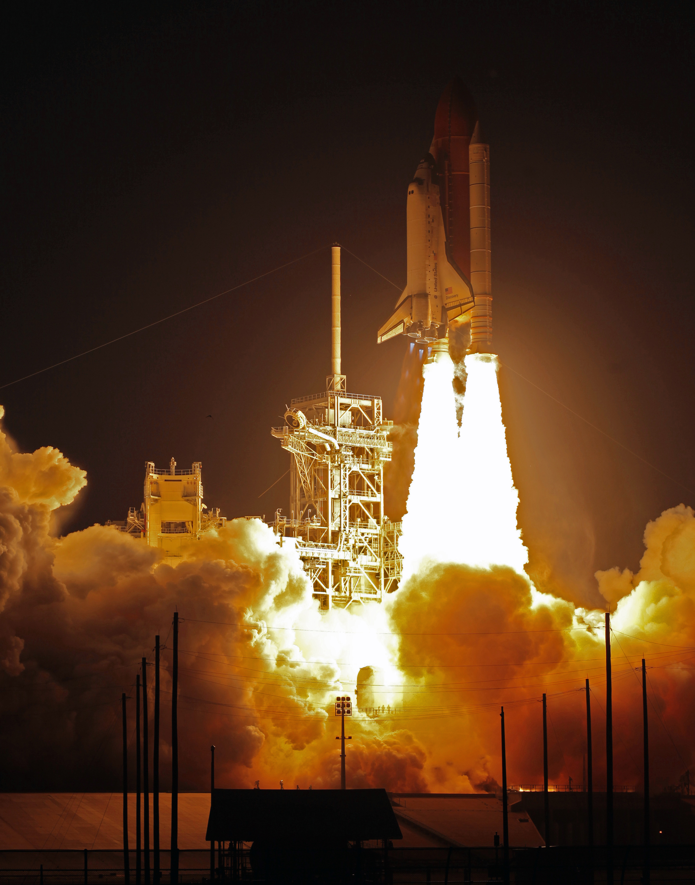 CAPE CANAVERAL, Fla. – Space shuttle Discovery roars off Launch Pad 39A on the STS-119 mission atop twin towers of fire that light up the sky after sunset at NASA's Kennedy Space Center in Florida. Liftoff was on time at 7:43 p.m. EDT.